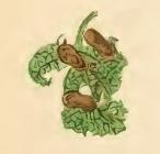 Stainton’s Natural History of the Tineina (1855–1873): Nemophora fasciella